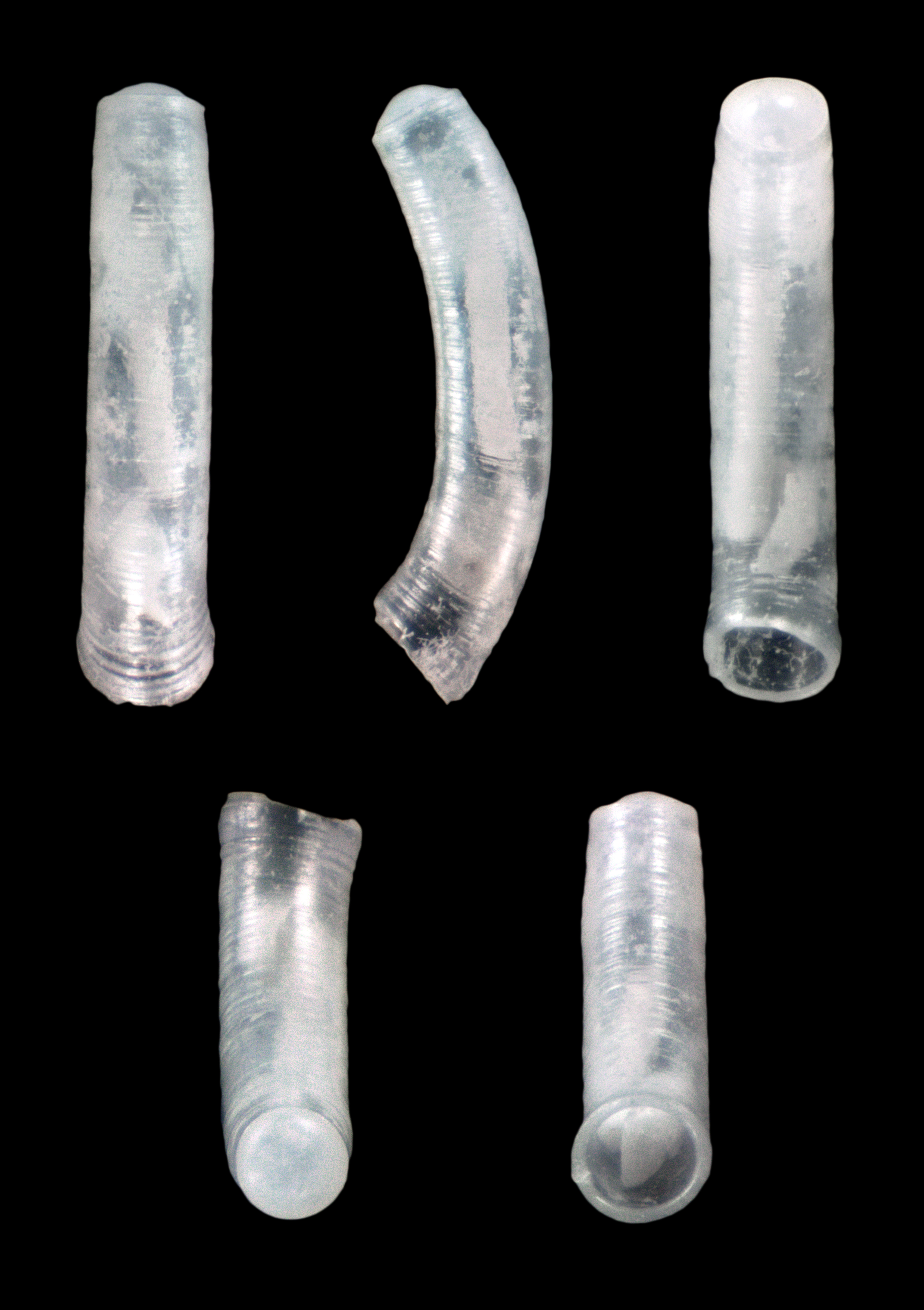 Caecum subannulatum Folin, 1870; Length 0.15 cm; Originating from Majorca, Spain; Shell of own collection, therefore not geocoded.